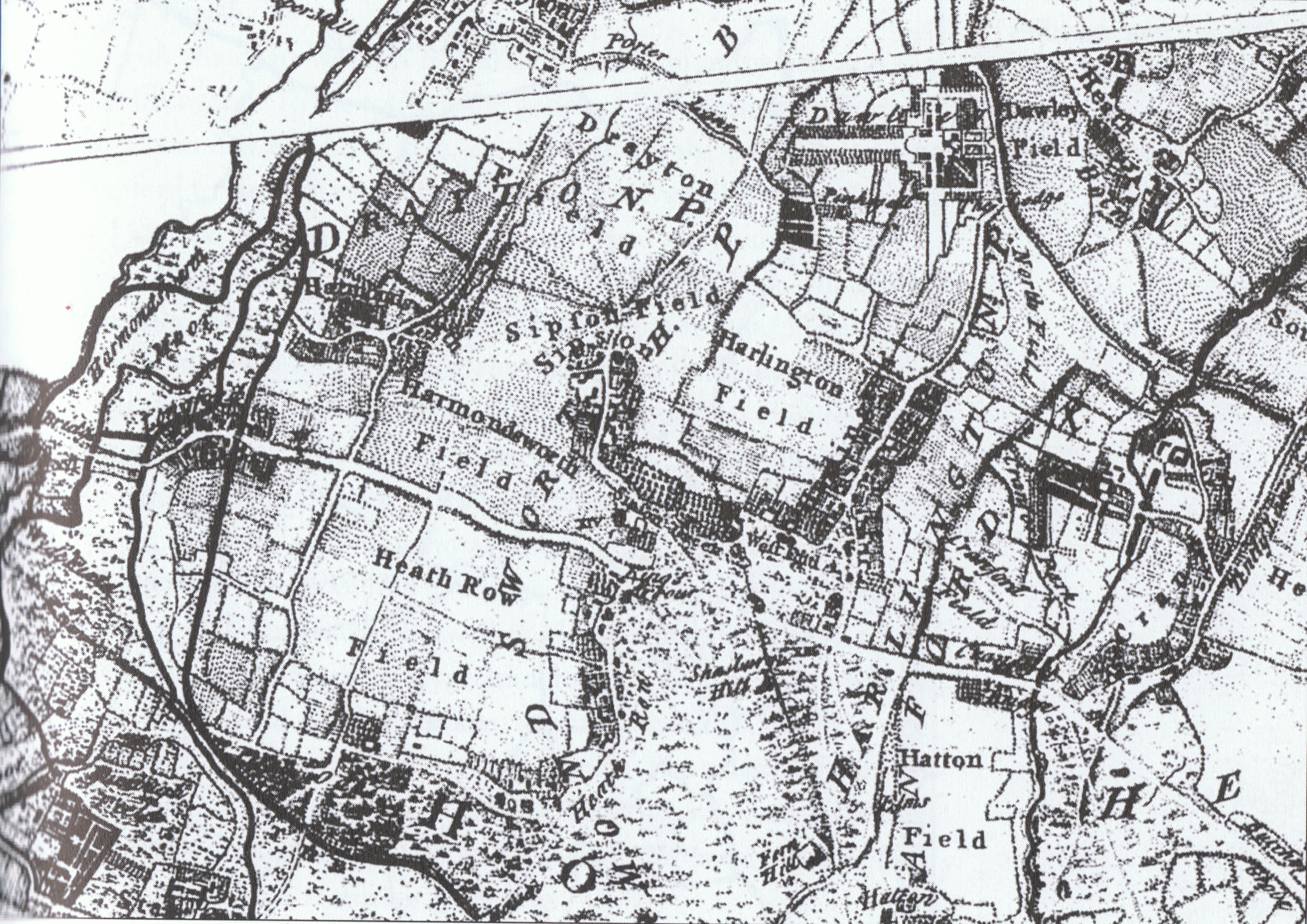 A Map of the County of Middlesex/Reduced from the an Actual Survey in four Sheets/By John Rocque / Carte de la Province de Middlesex/Reduite d'apres un arpanlage en quatre feuilles/Par Jean Rocque 1757. The map is a few degrees clockwise from true north. Its strikingly broad, straight way is the proposed route for the Grand Union (then Junction) Canal (and its Bulls Bridge junction which is one end of the Paddington Arm, which with the later Regent's Canal became Central London's current canal arteries).